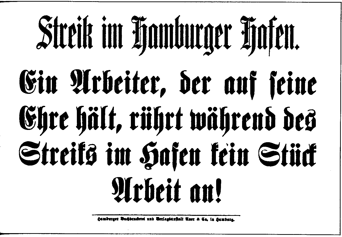 Hamburg Docker’s Strike 1896/97, flyer